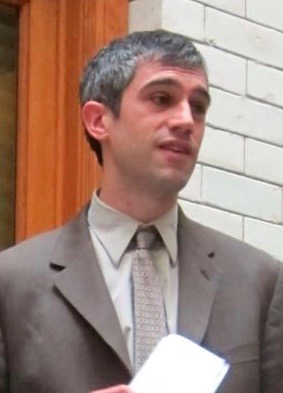 at the Getaround Portland launch, Feb. 22, 2012